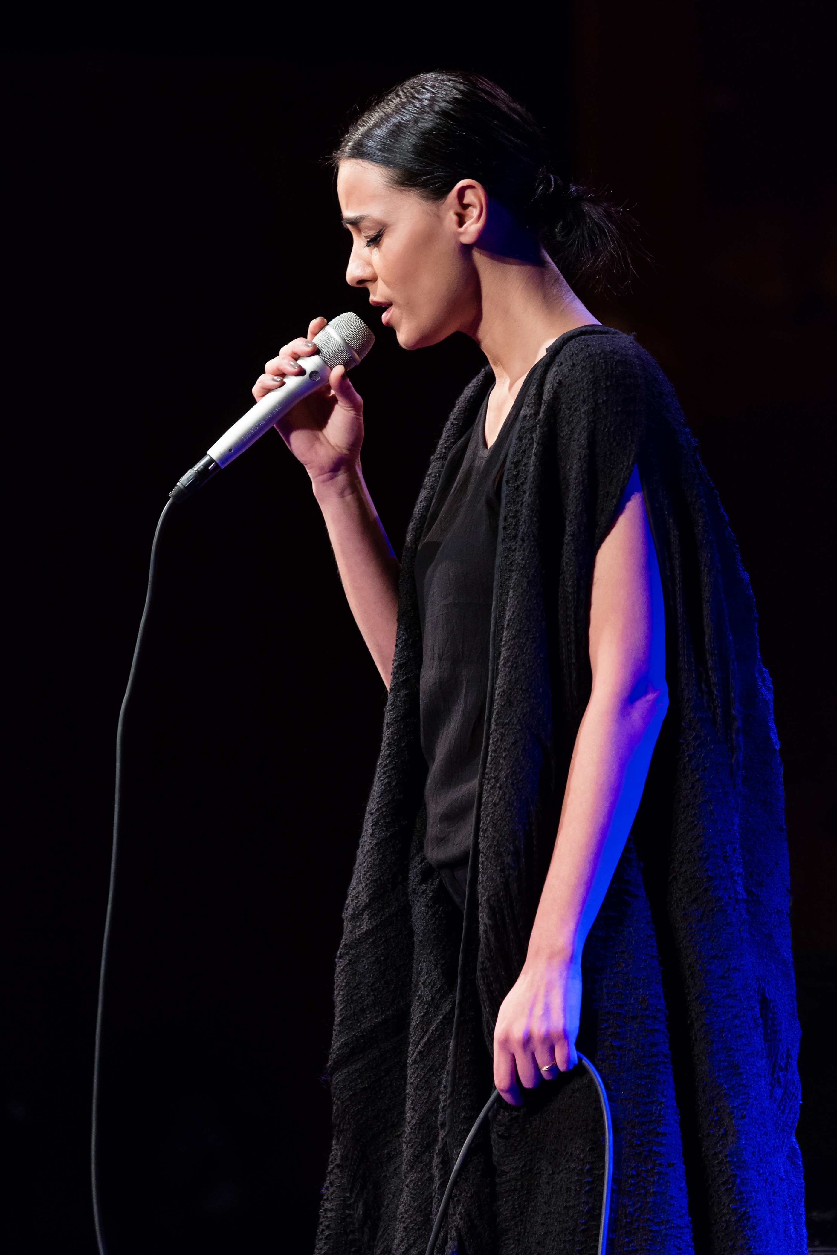 Madita and Axel Wolph, concert at the charity event An Evening for Licht ins Dunkel 2015 at Radiokulturhaus/Funkhaus Wien in Vienna, Austria.